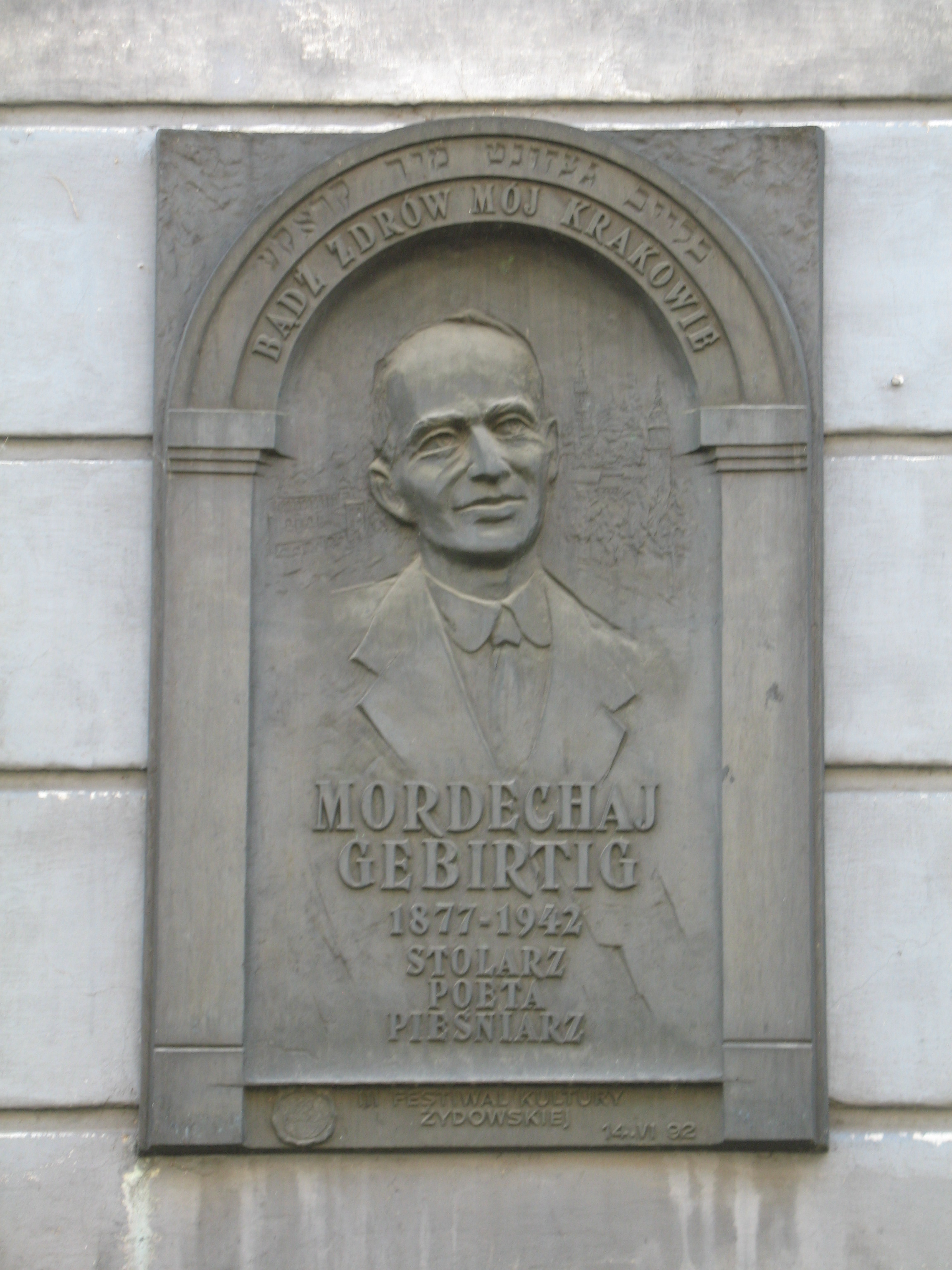 Mordechai Gebirtig commemorative plaque, 5 Berka Joselewicza Street - once Gebirtig's home, Kraków, Poland